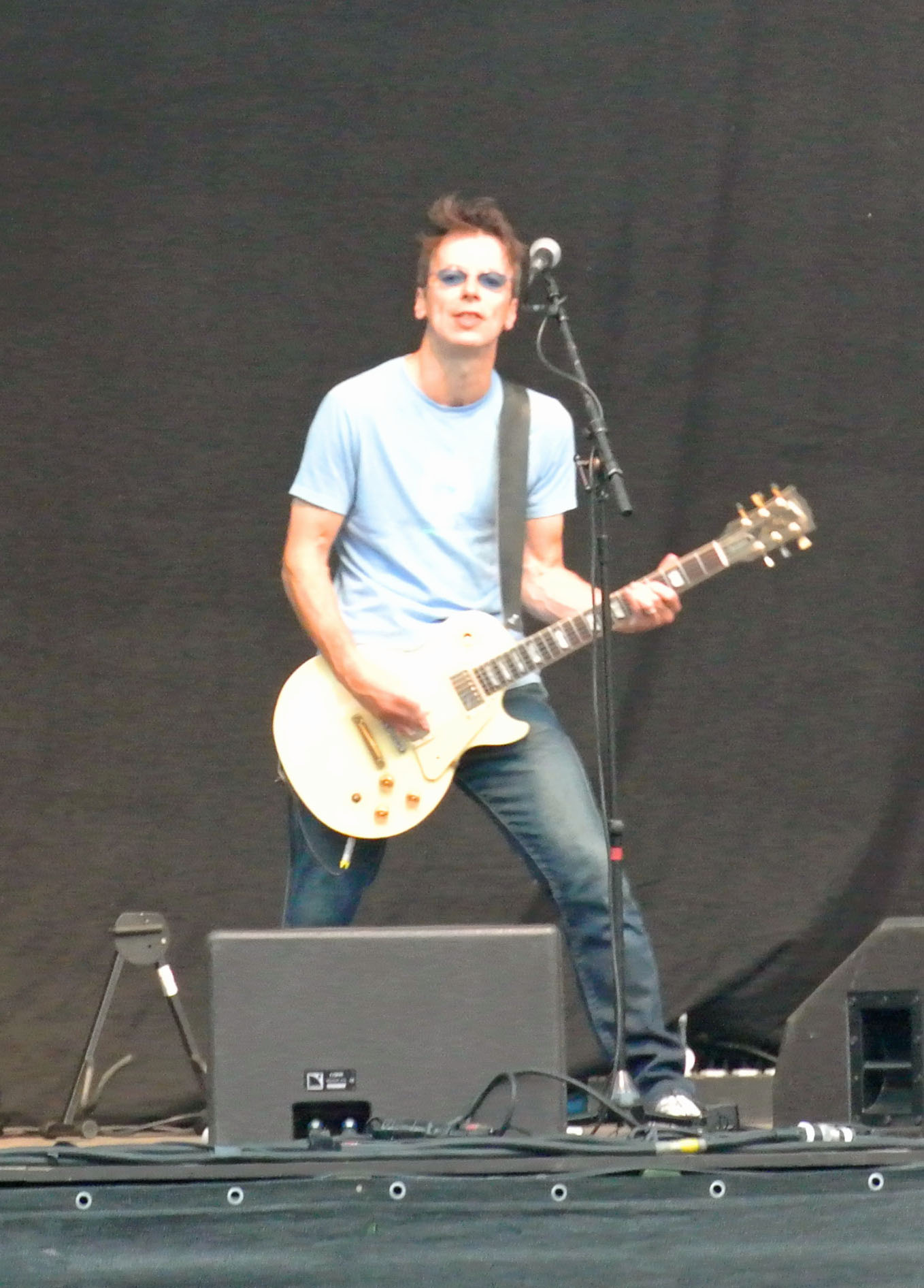 Damian O'Neill. On stage in Berlin as special guests of Die Ärzte, Waldbühne, 17th August 2012